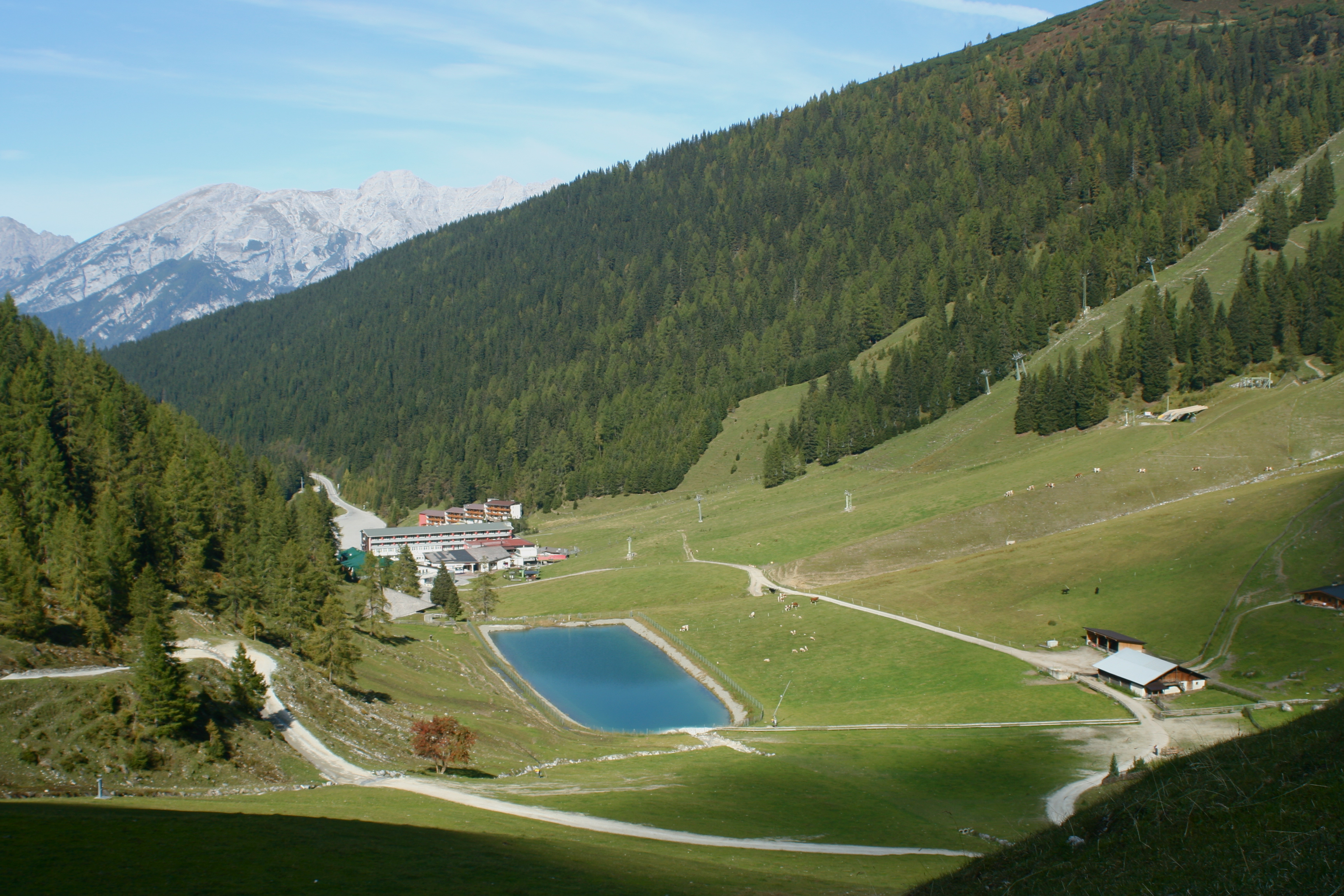 The Axamer Lizum from south, in the background the Karwendel with Großer Solstein (left) and Kleiner Solstein (right), Tyrol, Austria